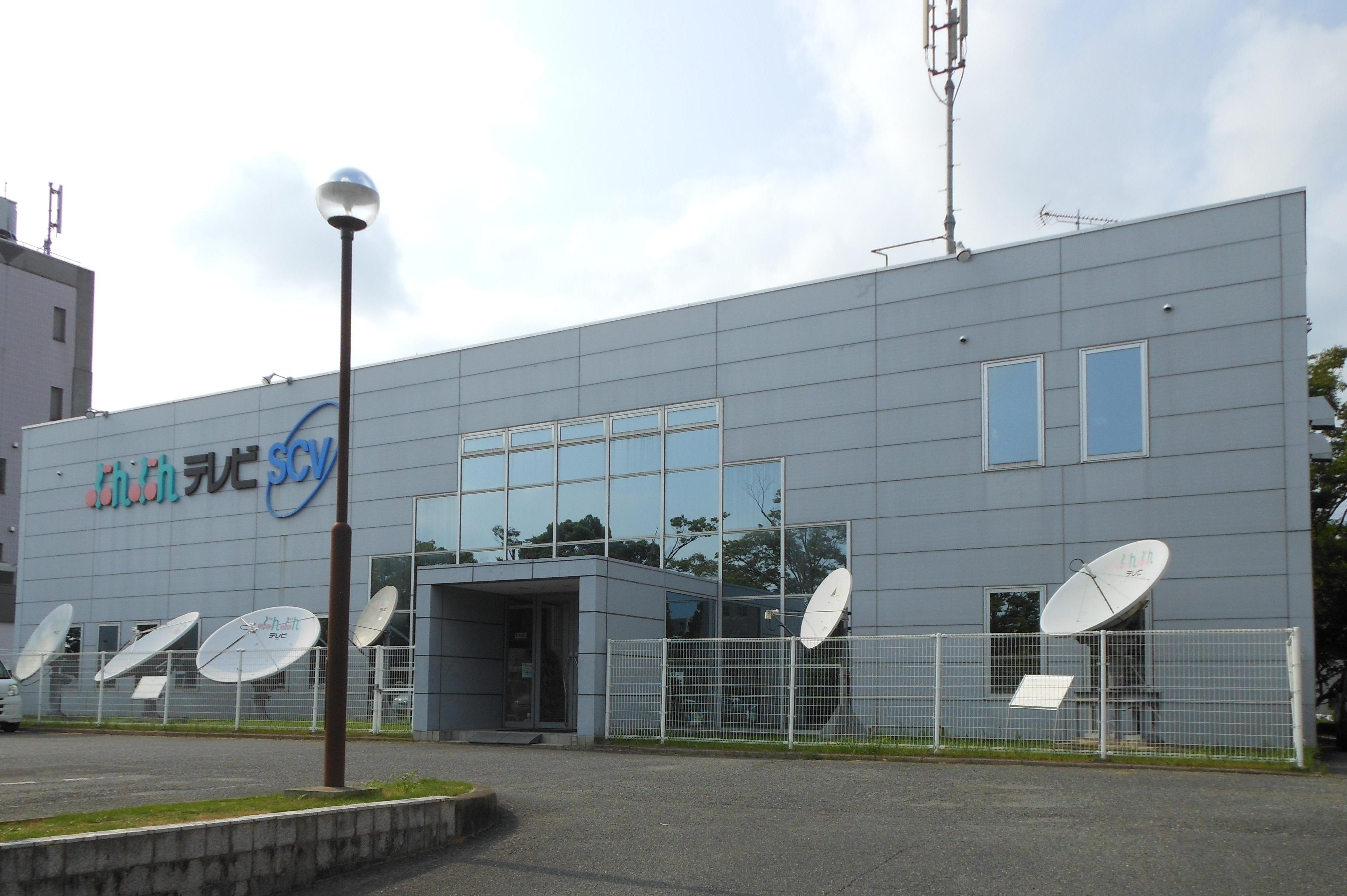 SAGA CITY VISION Co.,Ltd., a cable television company of Saga prefecture, Japan.